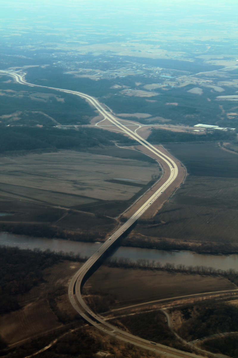 Interstate 435 over Missouri River